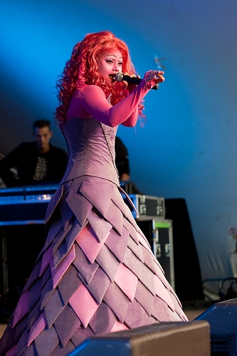 Hansel and Gretel, the musical by Rob Gommans Photography. Linda Wagenmakers, part of the cast of Hansel and Gretel the musical, performs at the UITfestival in Nijmegen - The Netherlands.